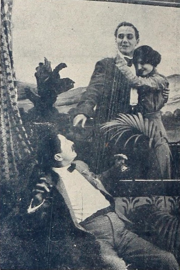 A film still from the 1911 Thanhouser Company film The Westerner and the Earl.